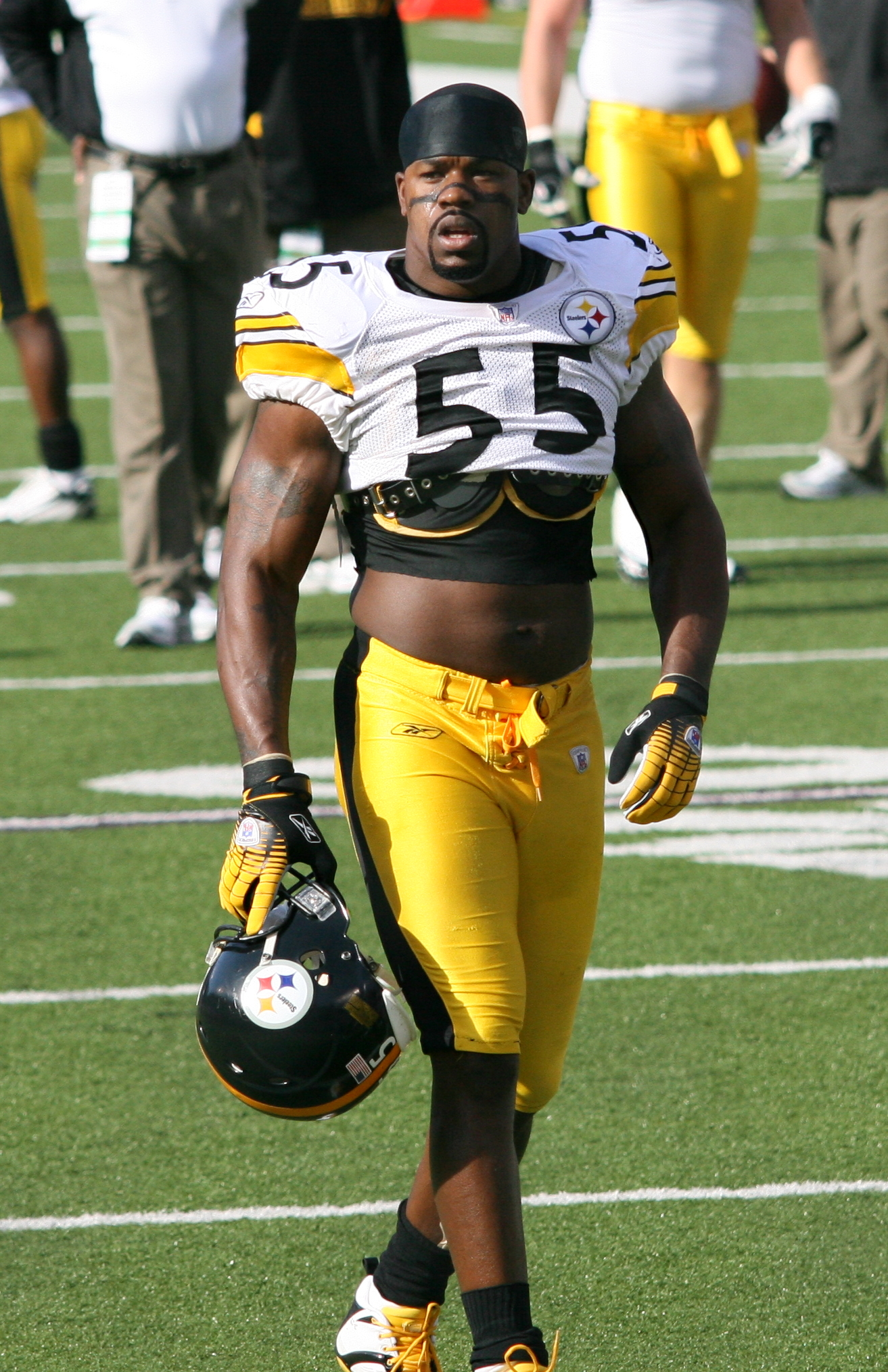 Porter prior to a game in 2006. Joey Porter.